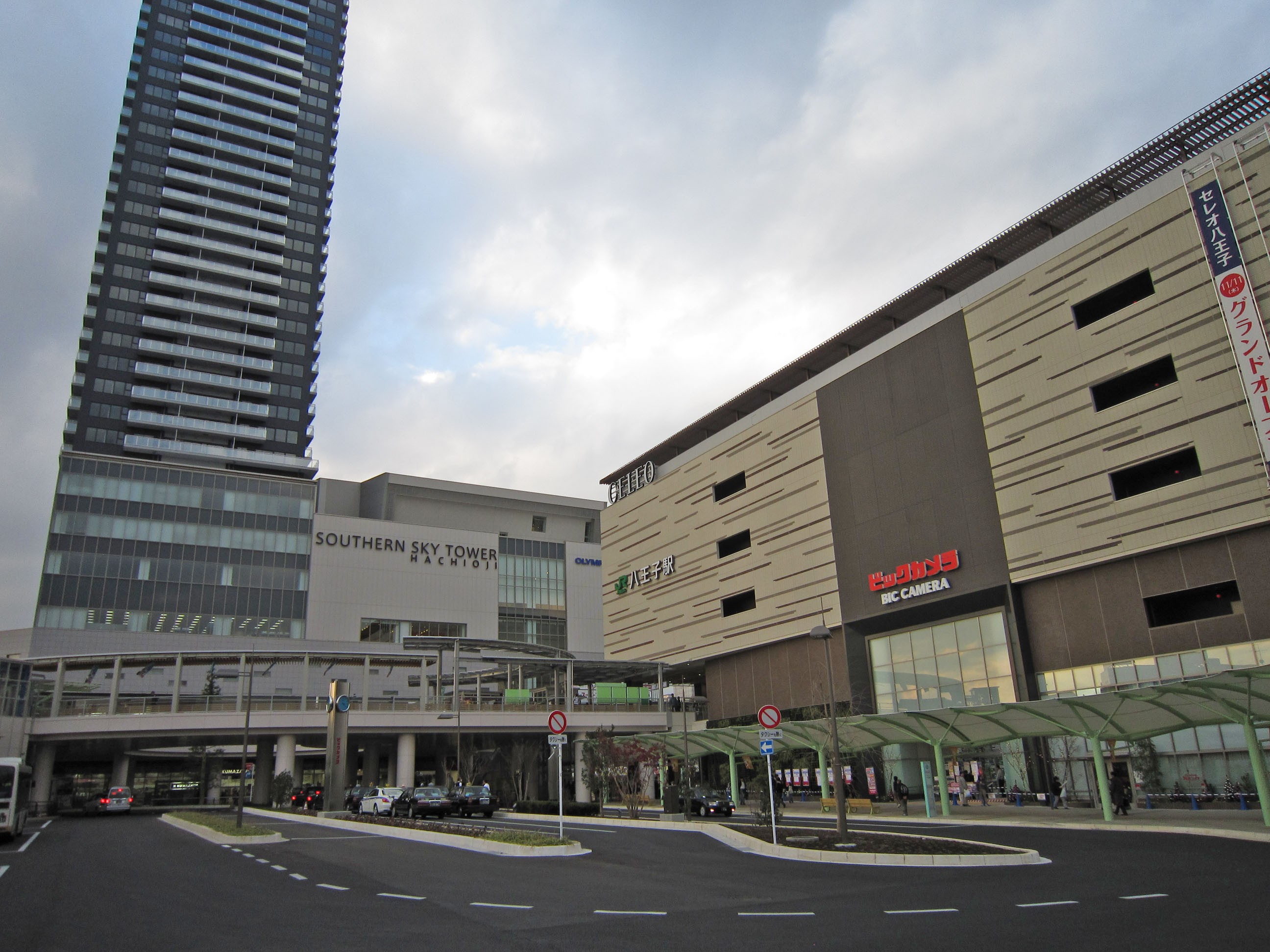 Hachioji Station South Exit, Hachioji, Tokyo, Japan